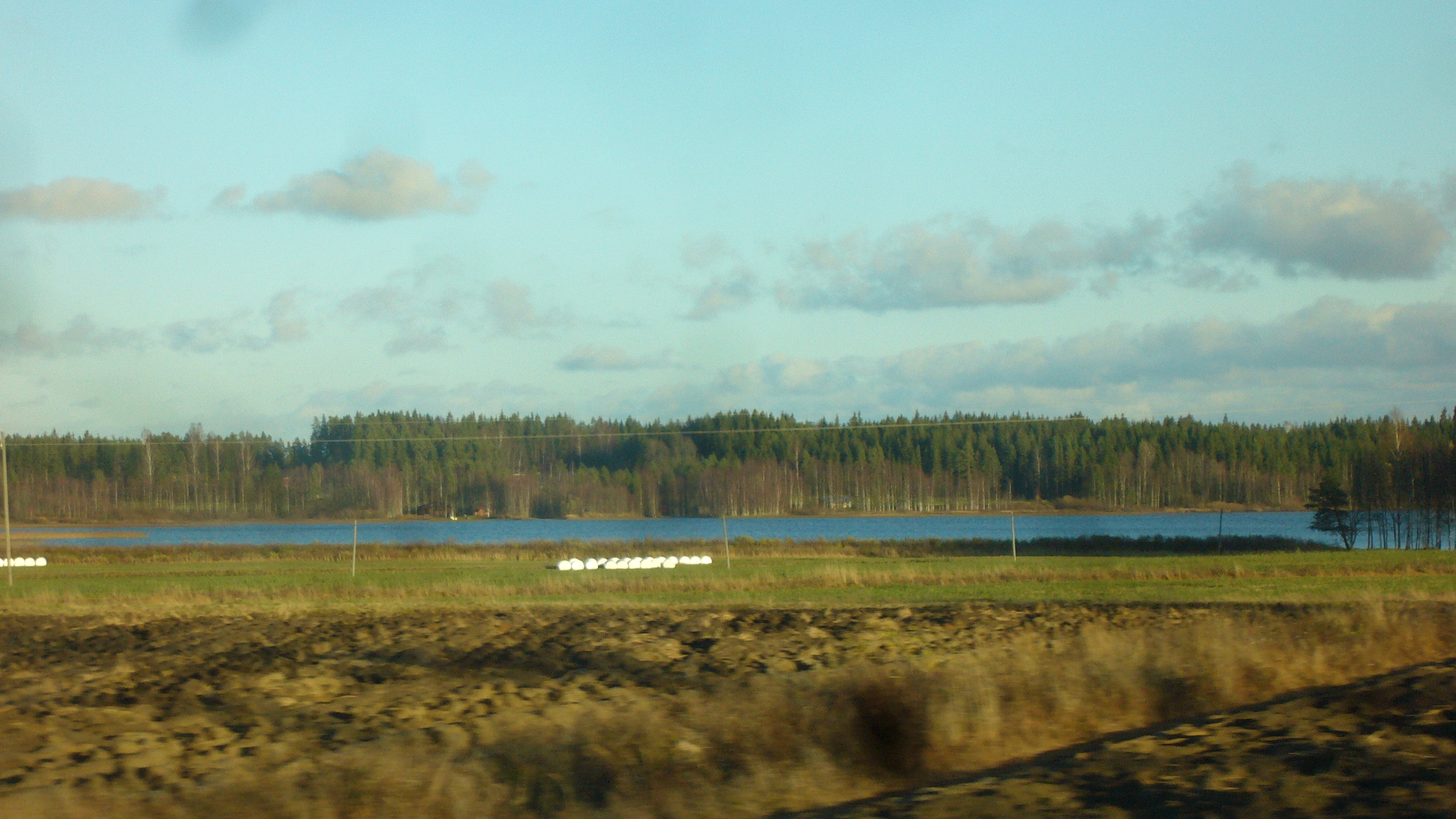 Lake Karvianjärvi in Karvia, Finland.